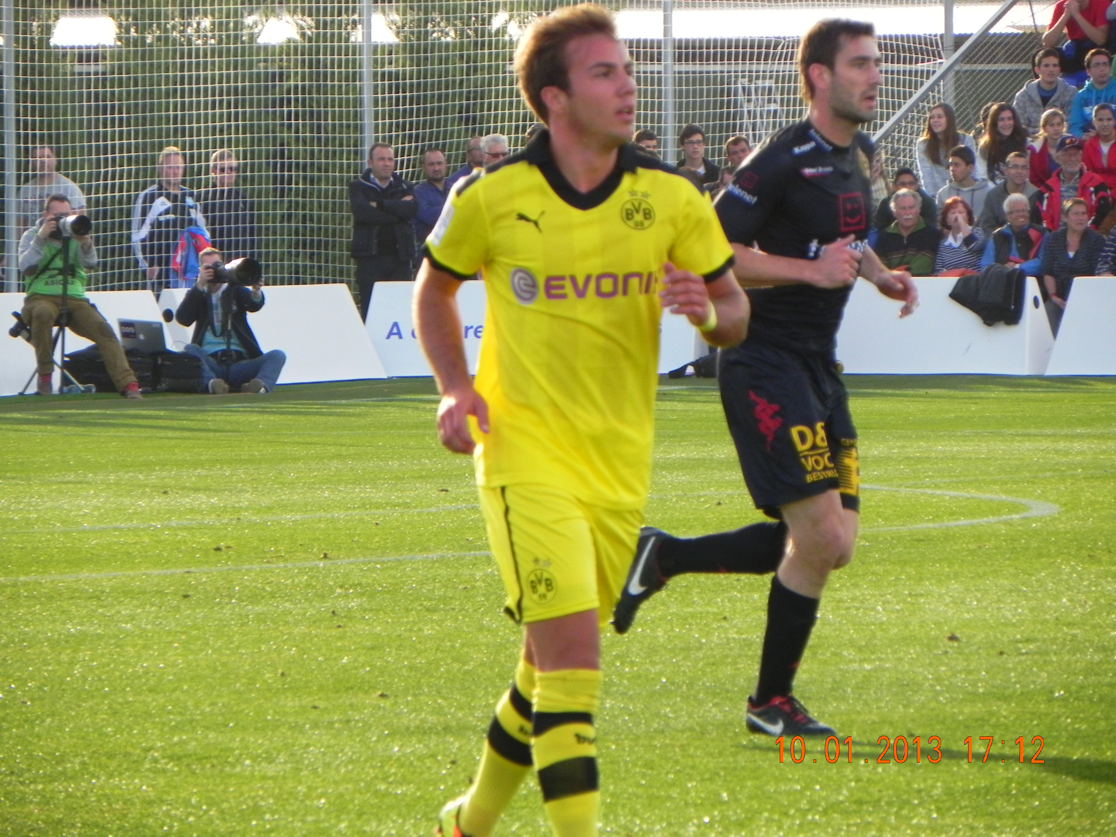 Partido amistoso en Murcia